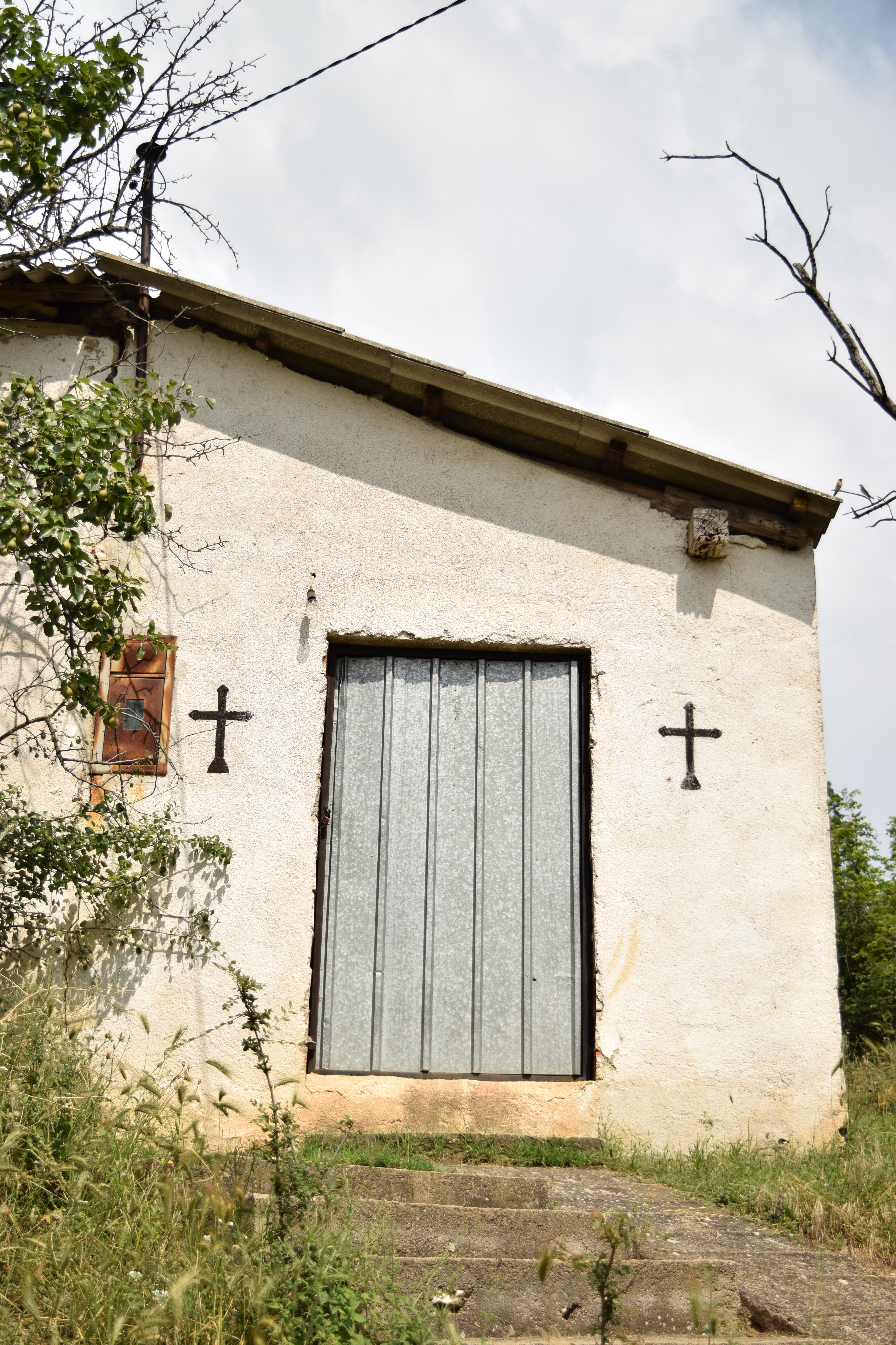 View of the St. Nicholas Church in the village Vladilovci